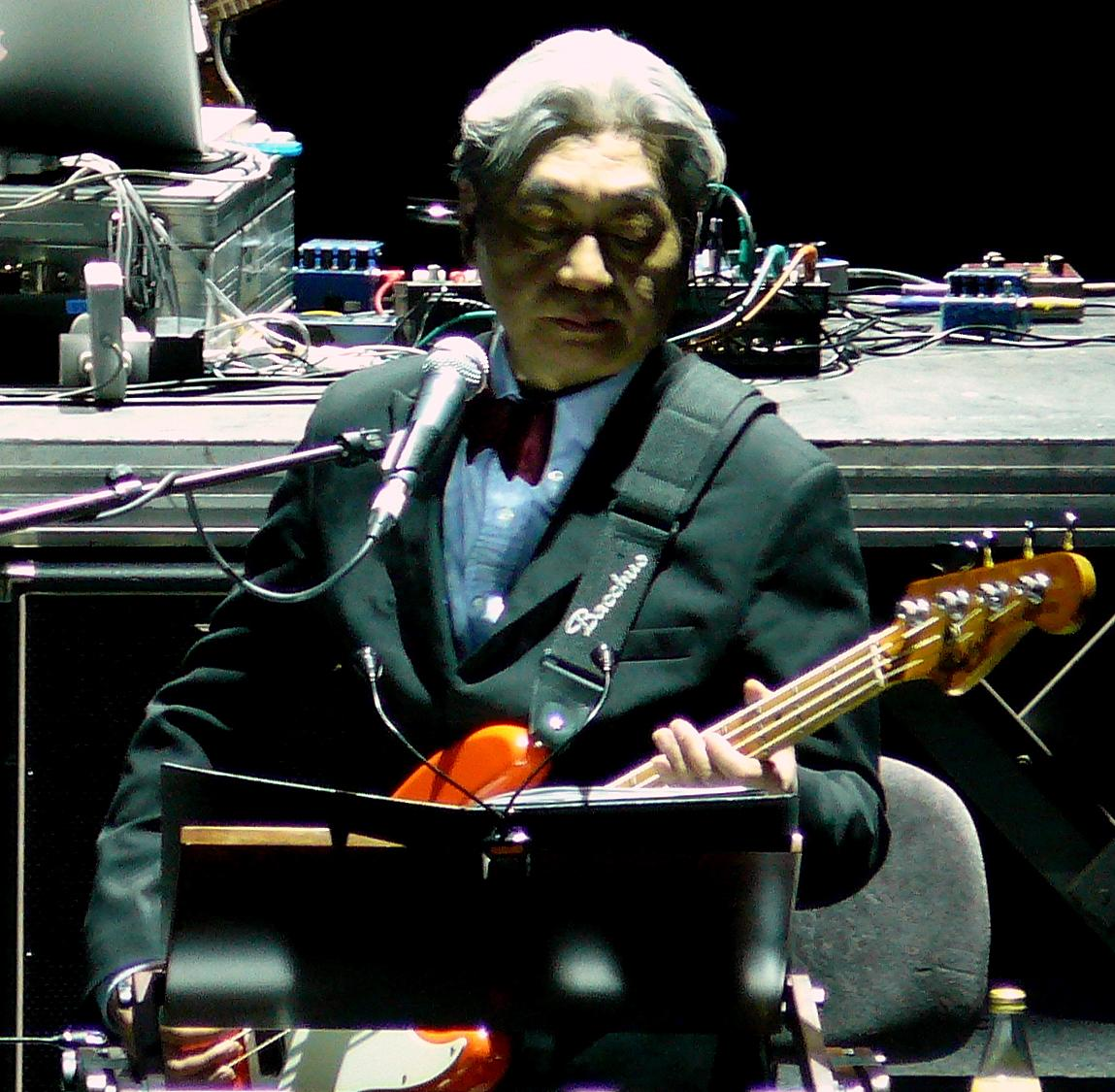 Bass player Haruomi Hosono playing a London concert with Yellow Magic Orchestra in 2008